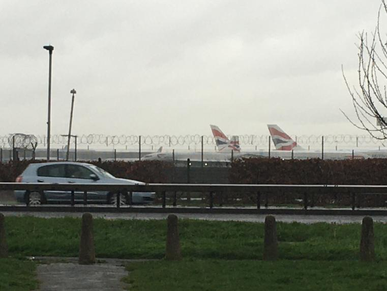 A view of Heathrow Airport from one of the closest streets to the southern runway, Myrtle Avenue. Visible in the centre of the image is Concorde G-BOAB ("Alpha Bravo") in its present location at the airport, where it has been kept since landing there in 2000.